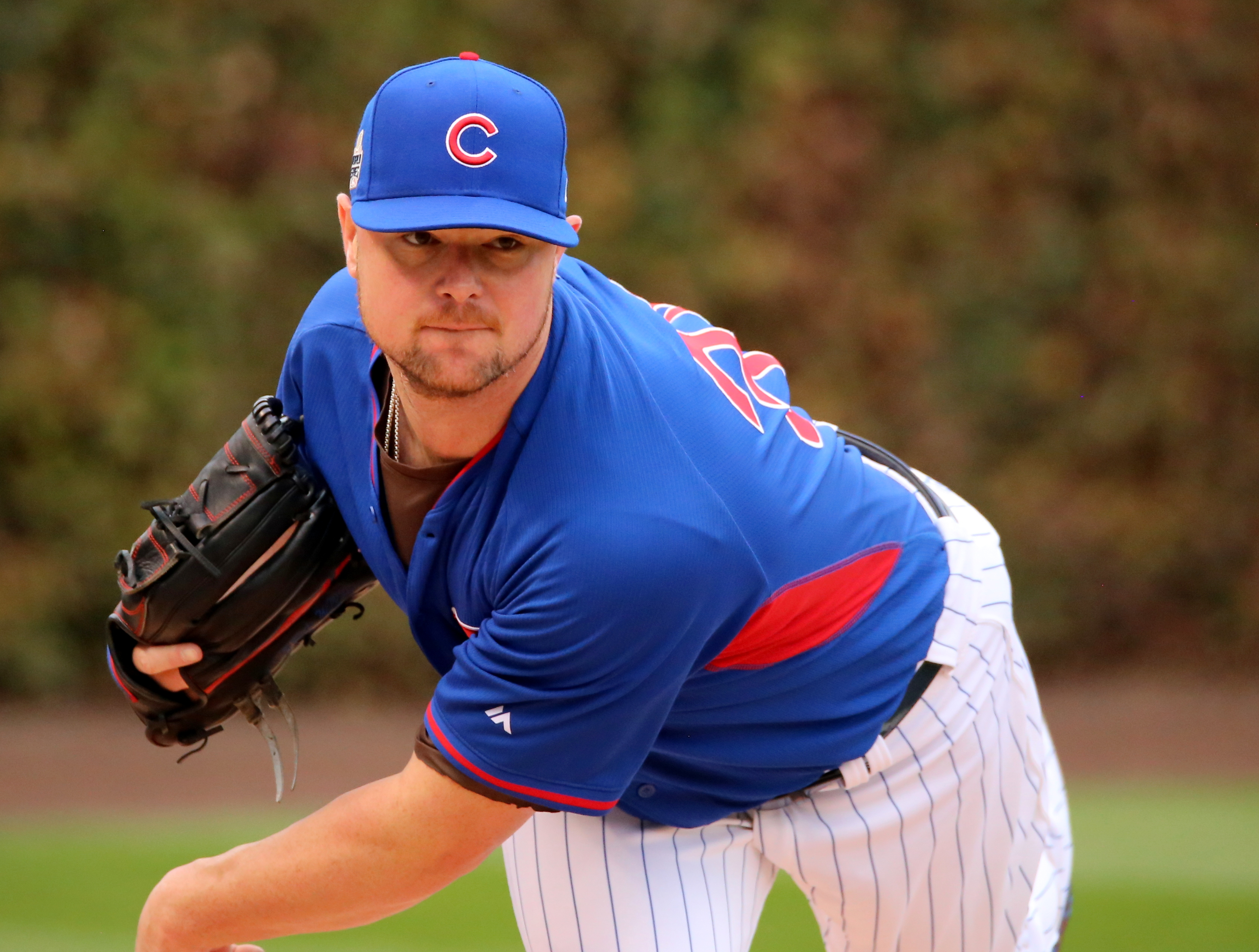 Cubs lefty Jon Lester throws a bullpen session at Wrigley Field before Game 3 of the 2016 World Series